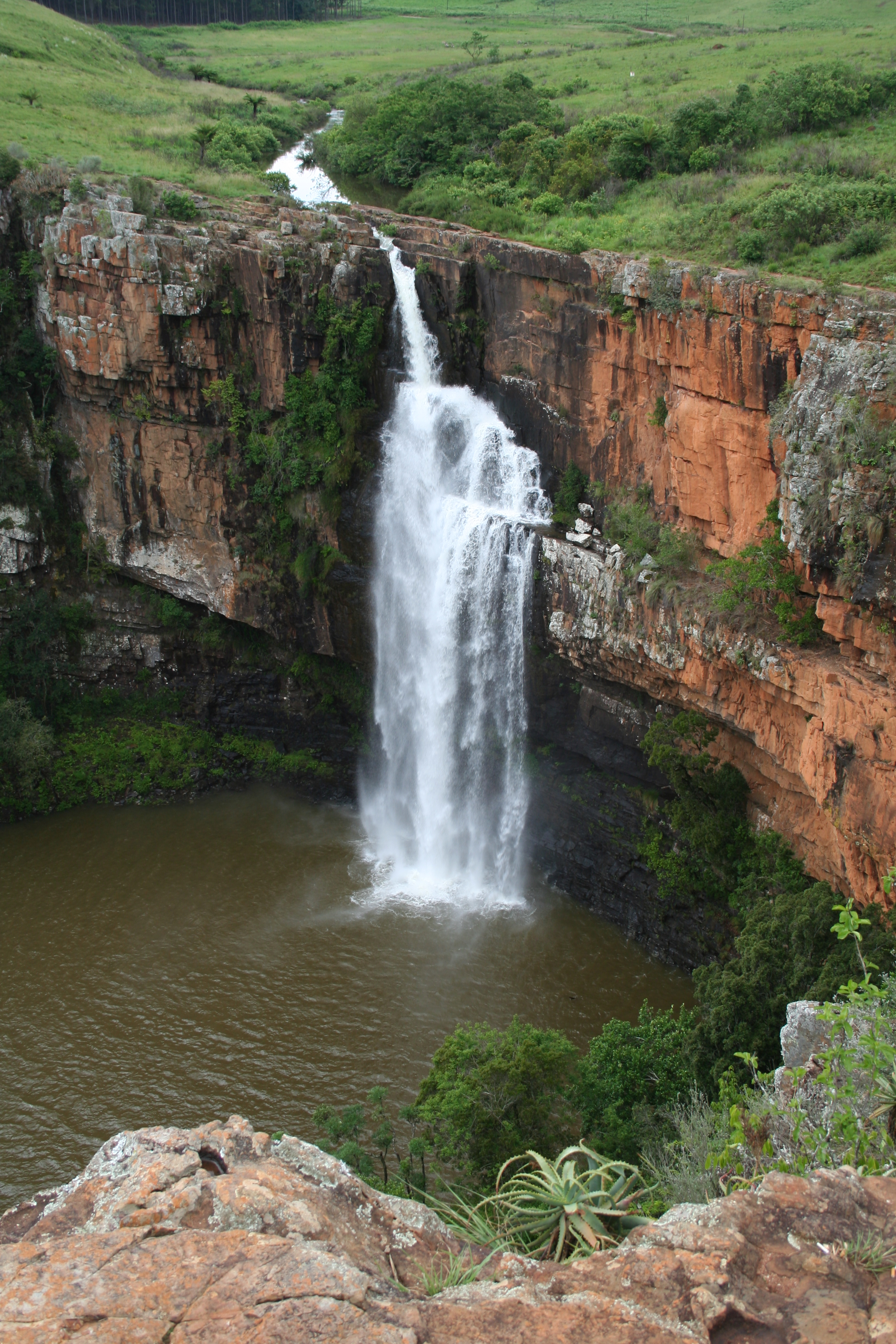 Berlin Falls near Graskop, South Africa